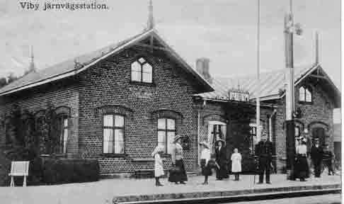 Viby railway station (Kristianstad-Åhus Järnväg, Kristianstad-Åhus line), Sweden